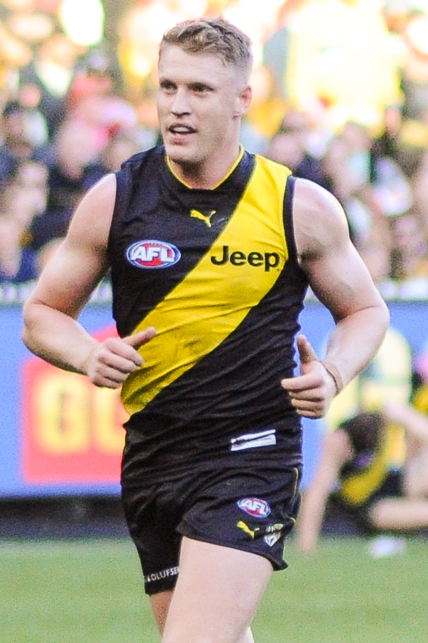 Josh Caddy during the AFL round thirteen match between Richmond and Sydney on 17 June 2017 at the Melbourne Cricket Ground in Melbourne, Victoria.